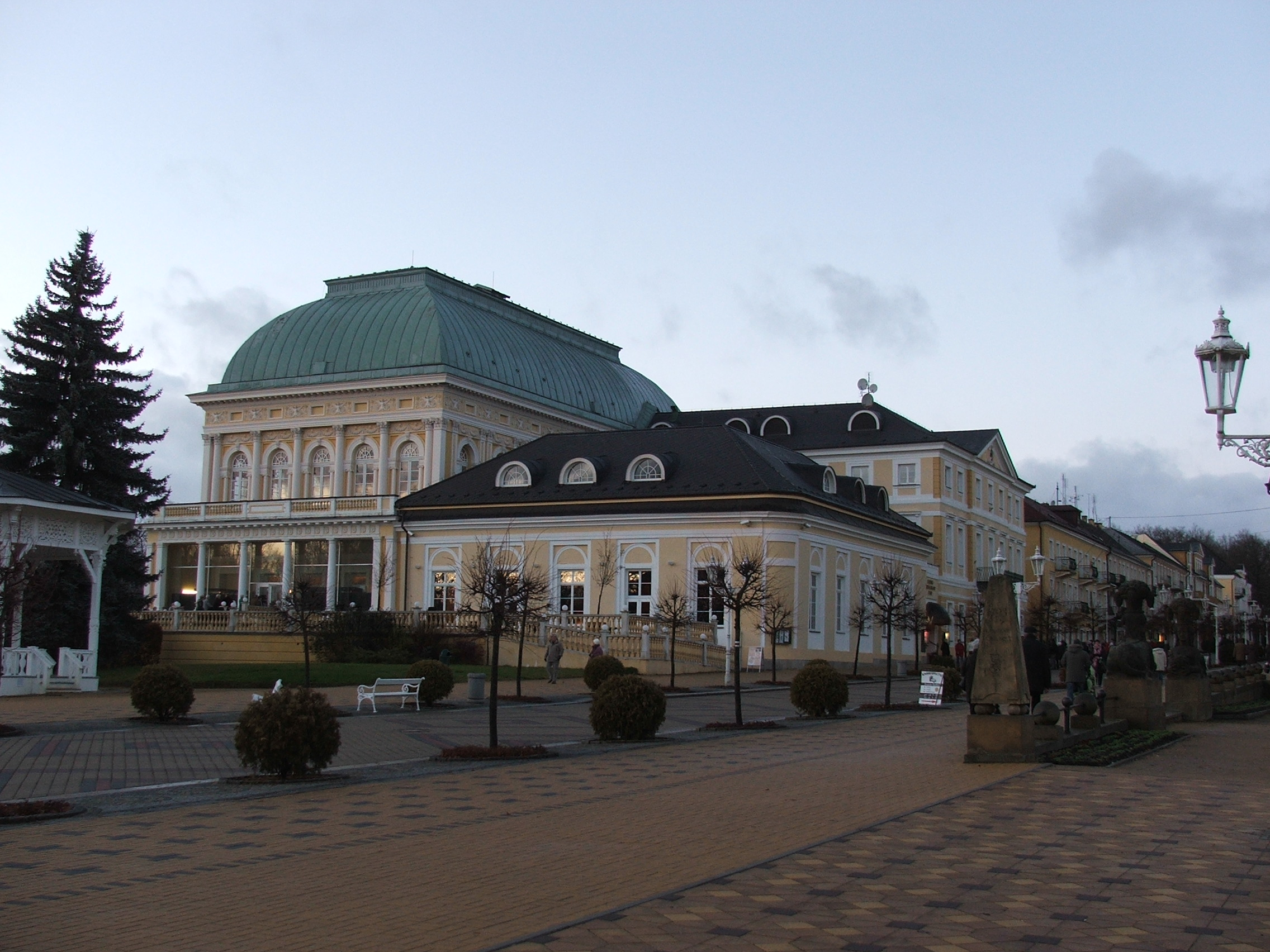 Casino in Františkovy Lázně (Franzensbad), Czechia.